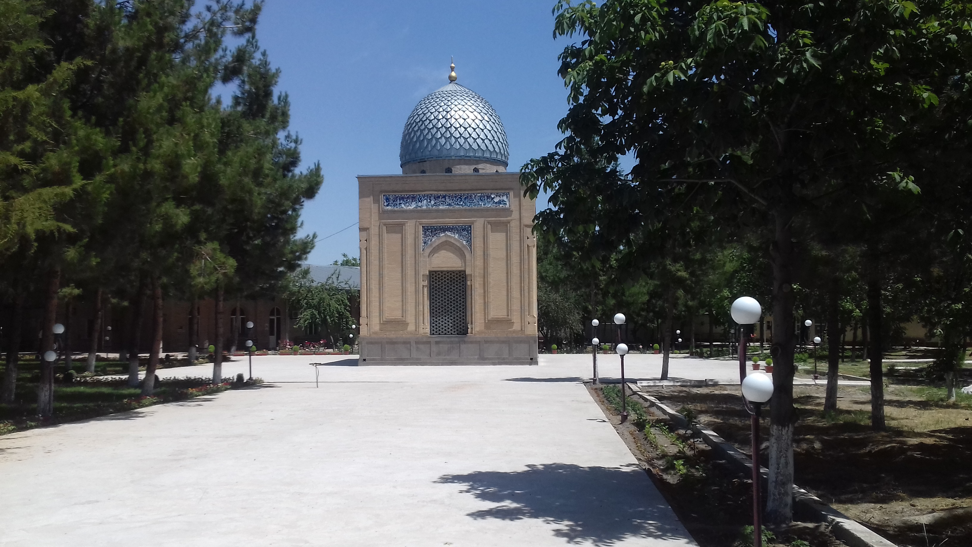 Murad Avliya Mausoleum and Courtyard in Samarkand (Uzbekistan)